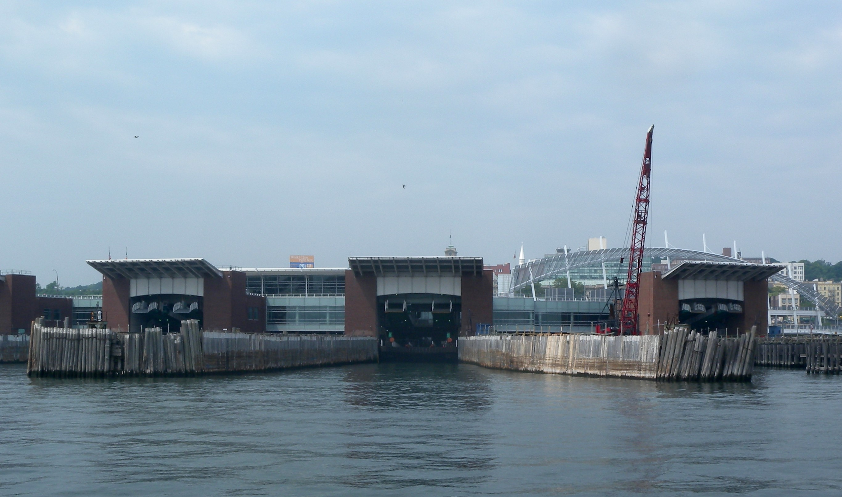 Looking southwest at St. George Ferry Terminal on a misty late morning.